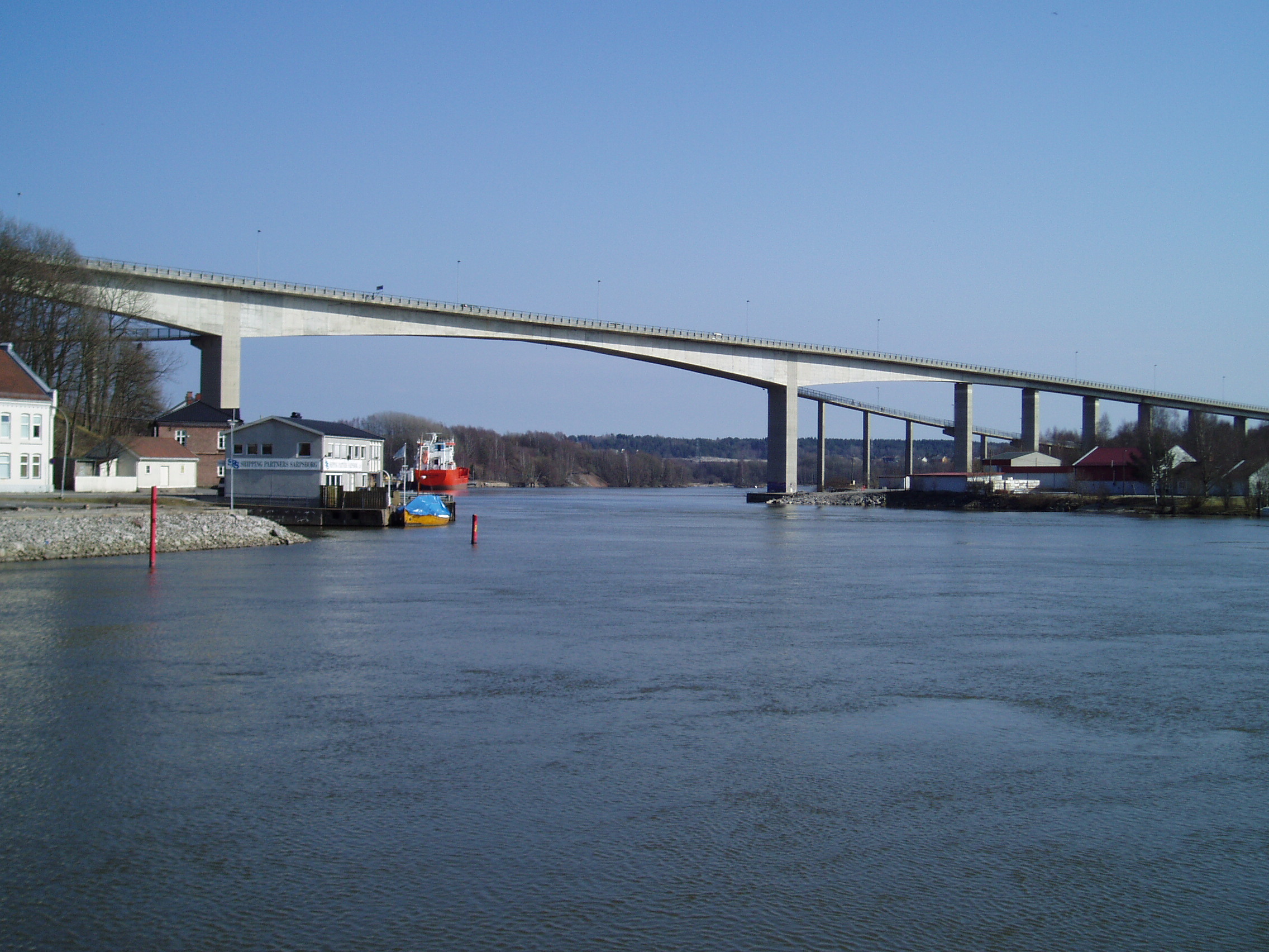 Sannesund Bridge (Norwegian: Sannesundbrua) looking North-East. The picture was taken from the west side of the river of Glomma, and from the south side of the bridge (downstream side). The picture was taken by JohnM 23 April 2006. A new bridge downstream of the existing bridge was opened in 2008 as part of highway conversion of the 2 lane road.